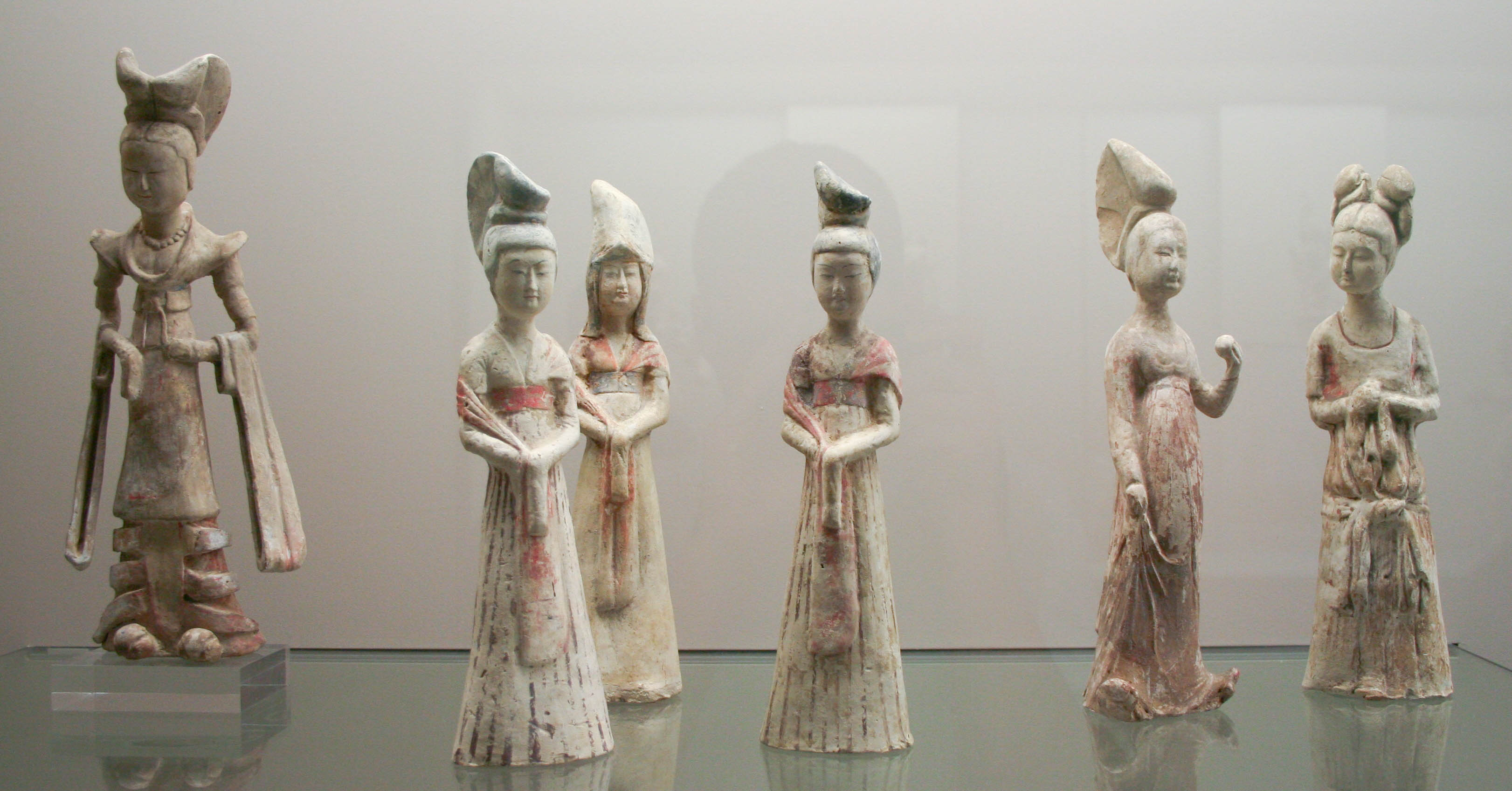 Chinese Tang Dynasty figurines. Cernuschi Museum, Paris, France.